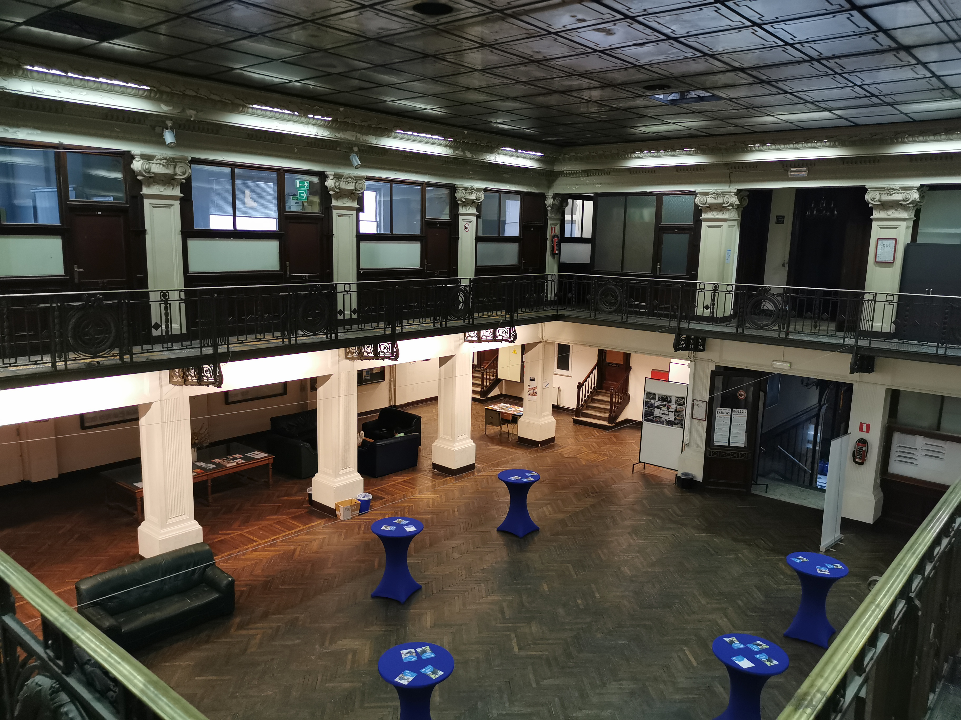 Interior courtyard of ISIB in Brussels (former Lever House)